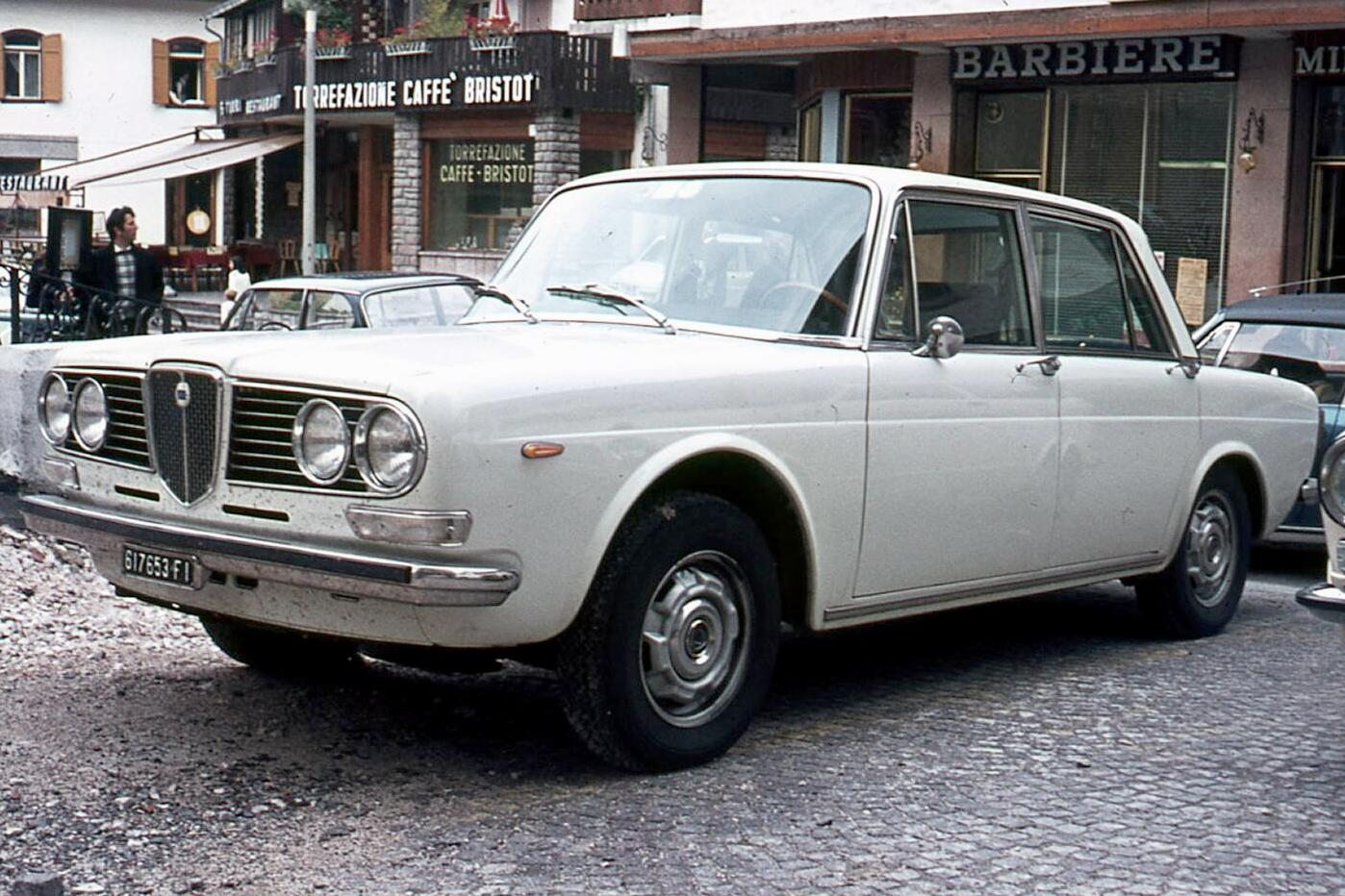 Lancia 2000 from Florence outside friseur